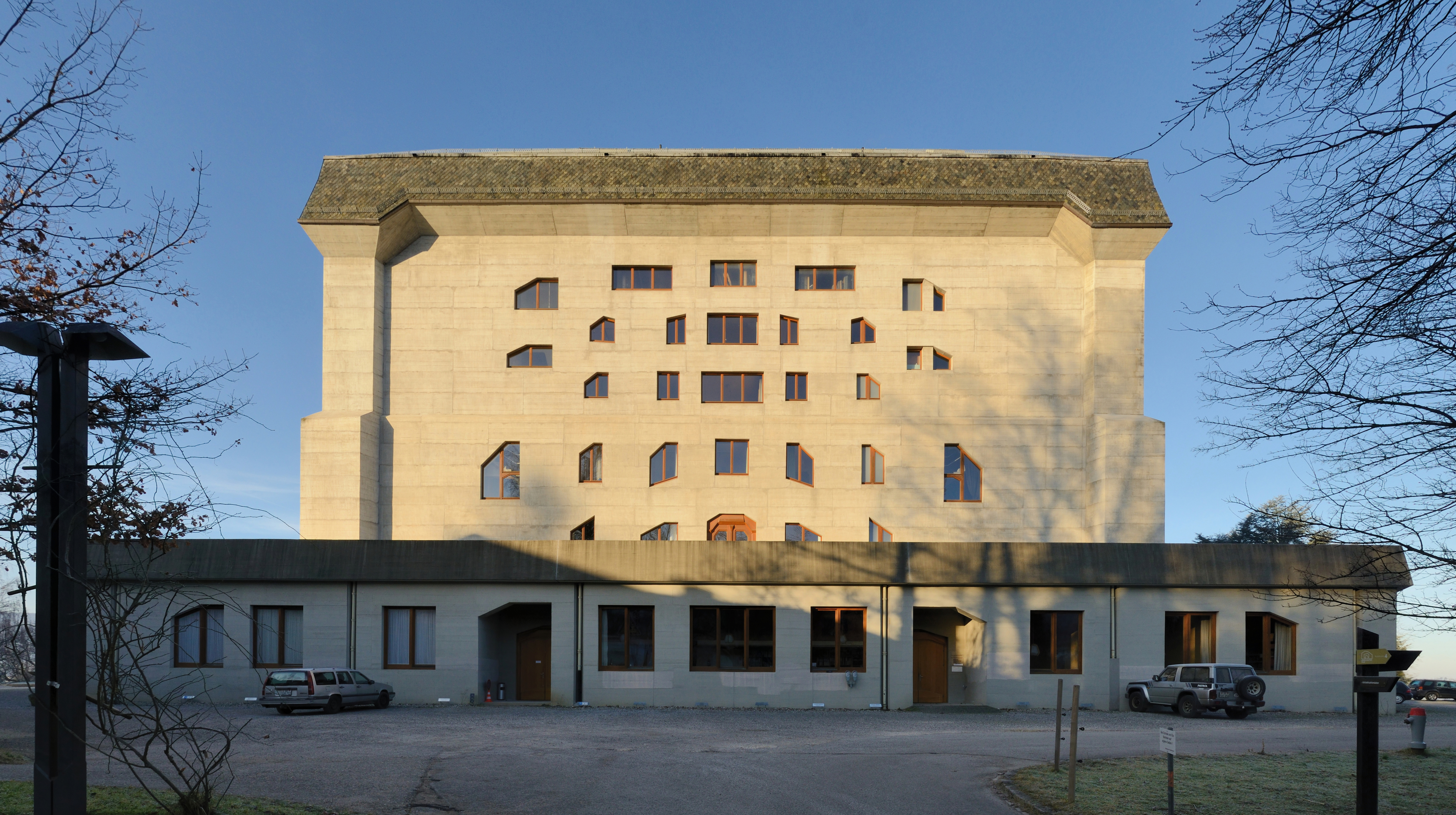 Goetheanum from east